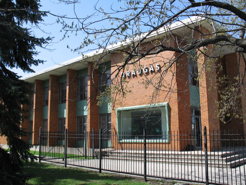 Draugas building in Chicago Picture by Monika Bonckute.